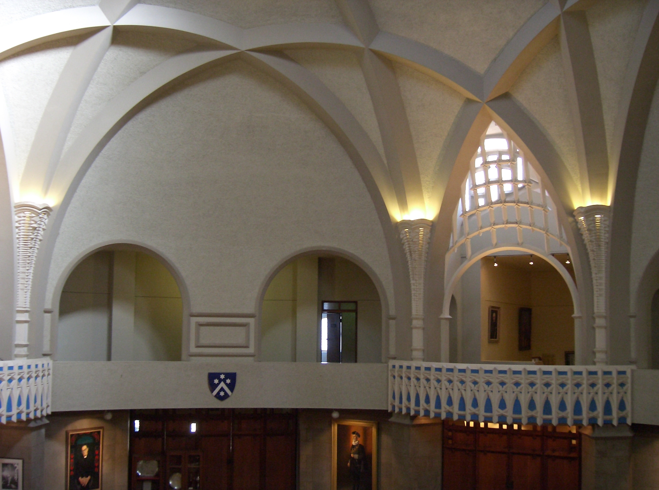 The archways inside the dome of the Dining building, Newman College, University of Melbourne.